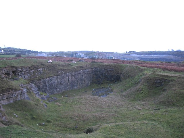 Quarries old and new. A view looking south over the old quarry workings on Halkyn Mountain towards the modern quarry near Bryn Siriol.